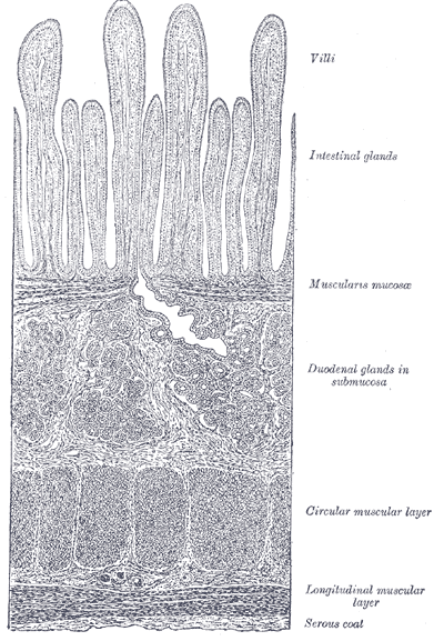 Section of duodenum of cat. (After Schäfer.) X 60.